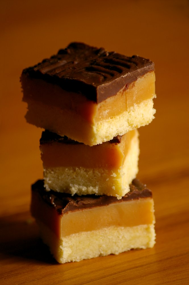 Also called "Caramel shortbread," the confection consists of three layers; a shortbread biscuit base, a caramel filling and a milk chocolate topping.